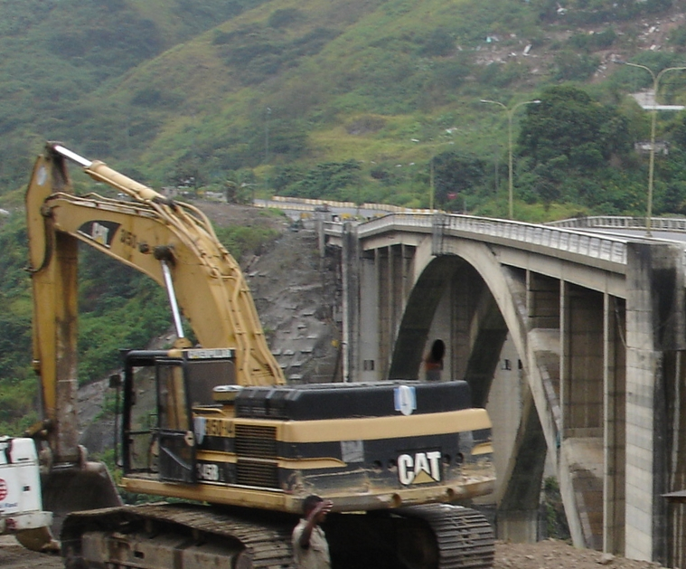 Old Viaduct N°1 before its collapse, 2006.